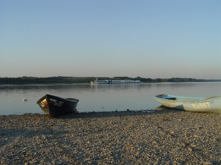 Ranei-Xisarlyka